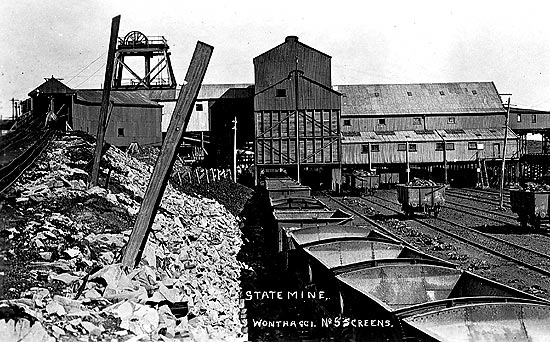 Rail trucks at State Mine railway station, Victoria serving State Coal Mine, Victoria